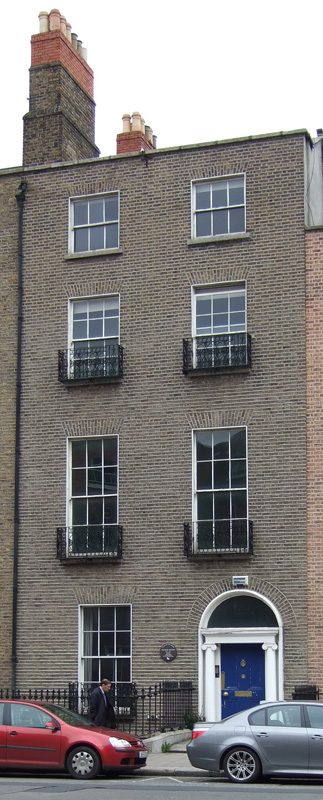 Francis Bacon's birthplace at 63 Baggot Street in Dublin's Southside was commemorated with a plaque in 1999 ("the first time Bacon's Irish origins were given such public acknowledgment" (The Irish Times (Fri 12 Dec 1999)—Plaque marking birthplace of Bacon unveiled)).